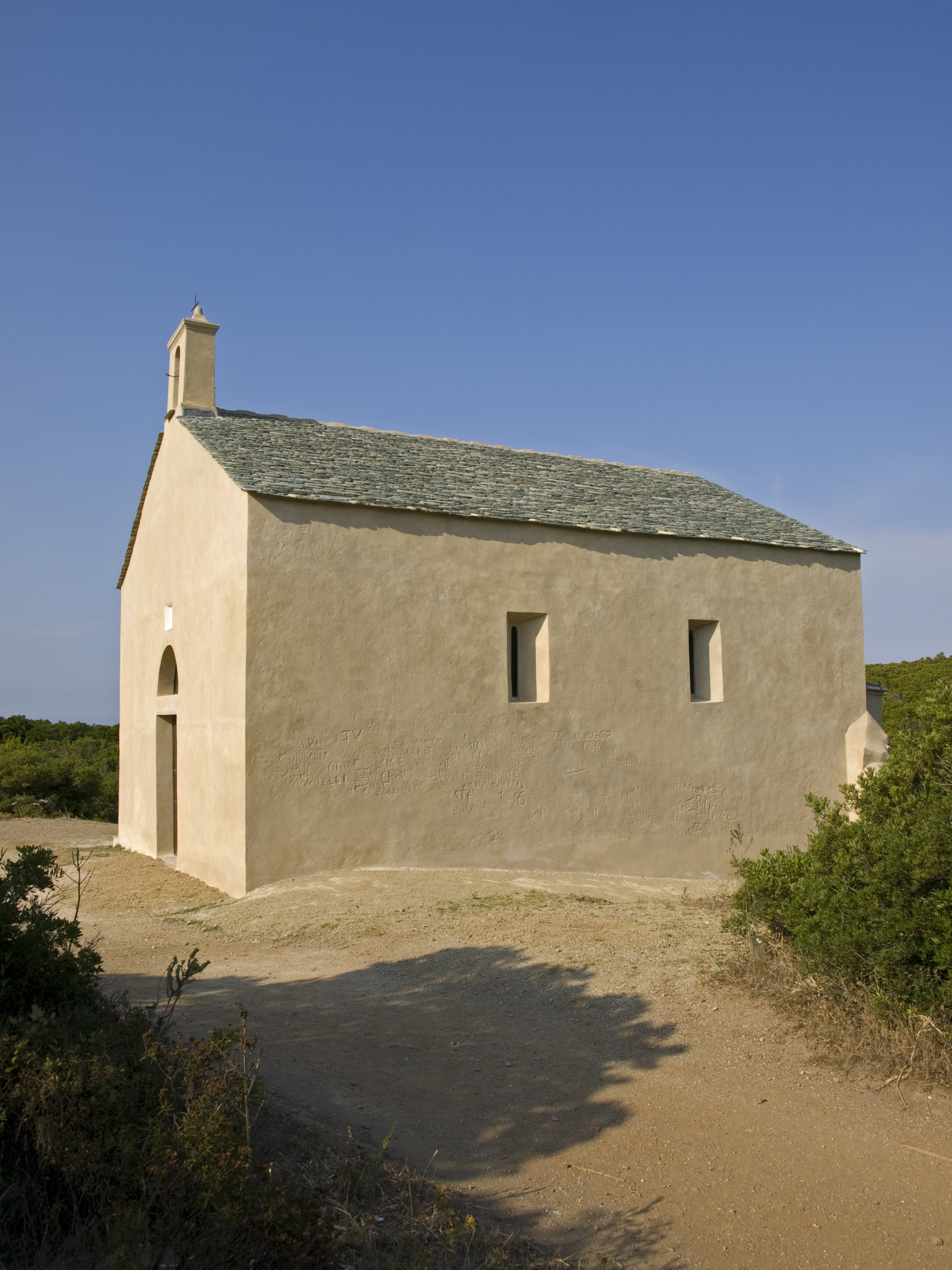 Capella Santa Maria, near the north-east extremity of Cap Corse